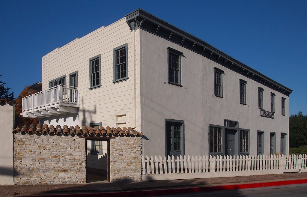 Robert Louis Stevenson House (aka the French Hotel), Monterey, California, USA. Viewed from the east.